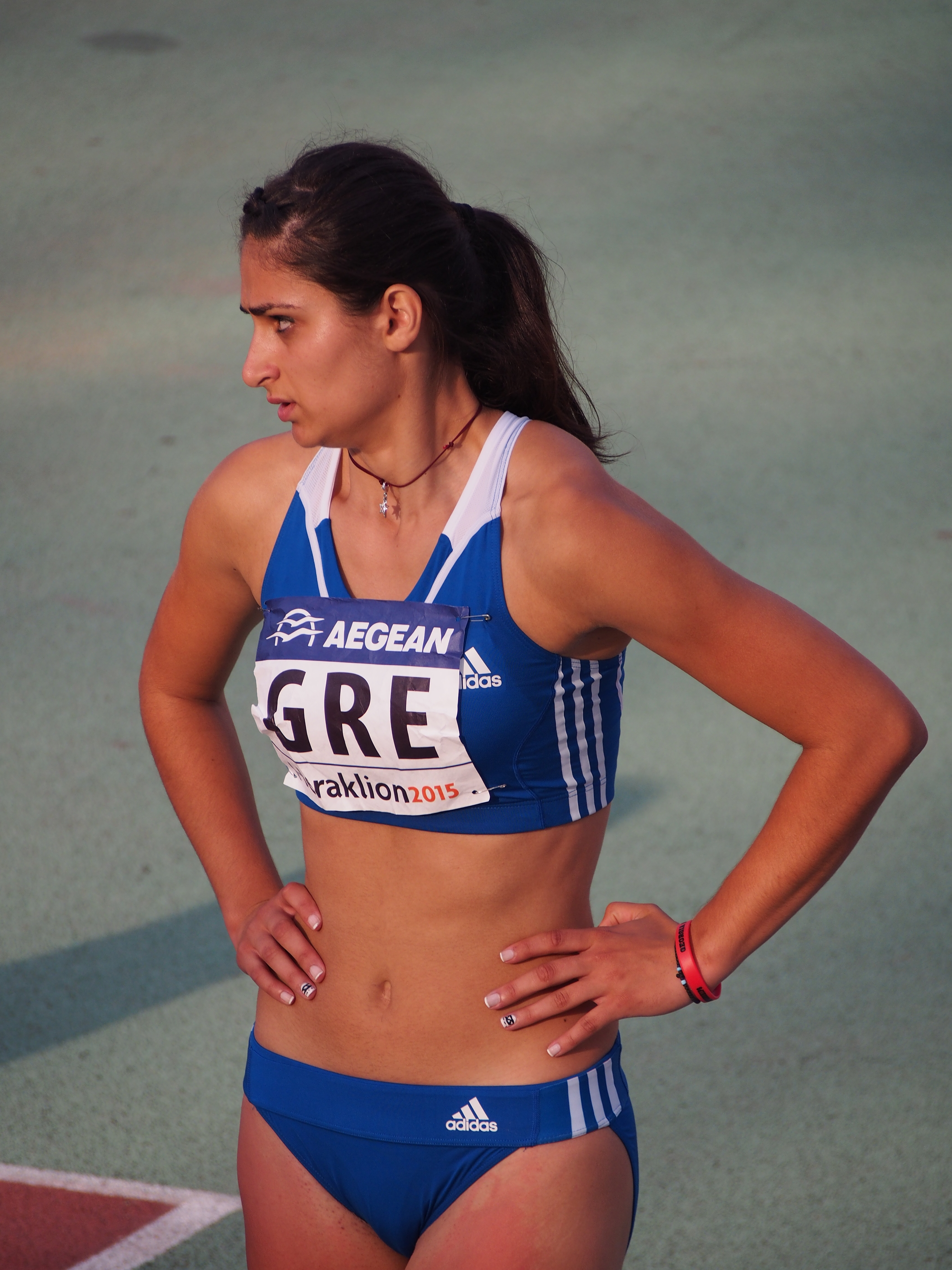 Tatiana Gousin, representing Greece, during the 2015 European Team Championships First League.